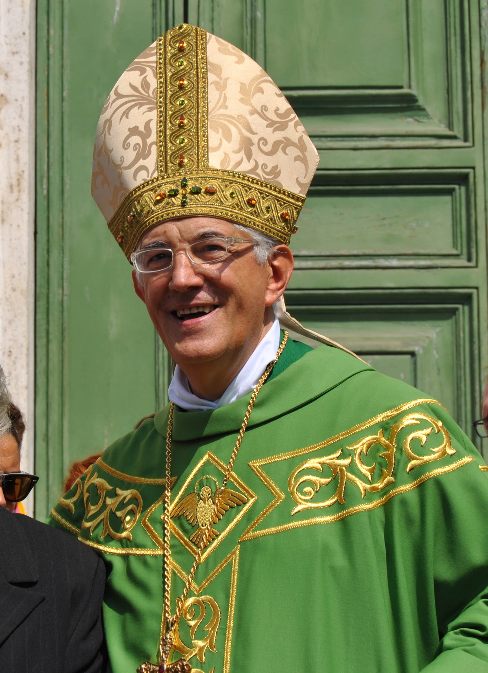 Edoardo Cerrato after his first Mass as a bishop